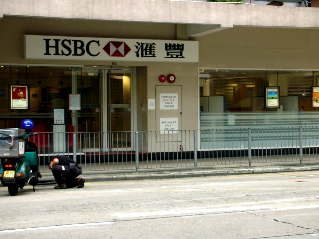 An branch of HSBC, located at To Kwa Wan, Hong Kong